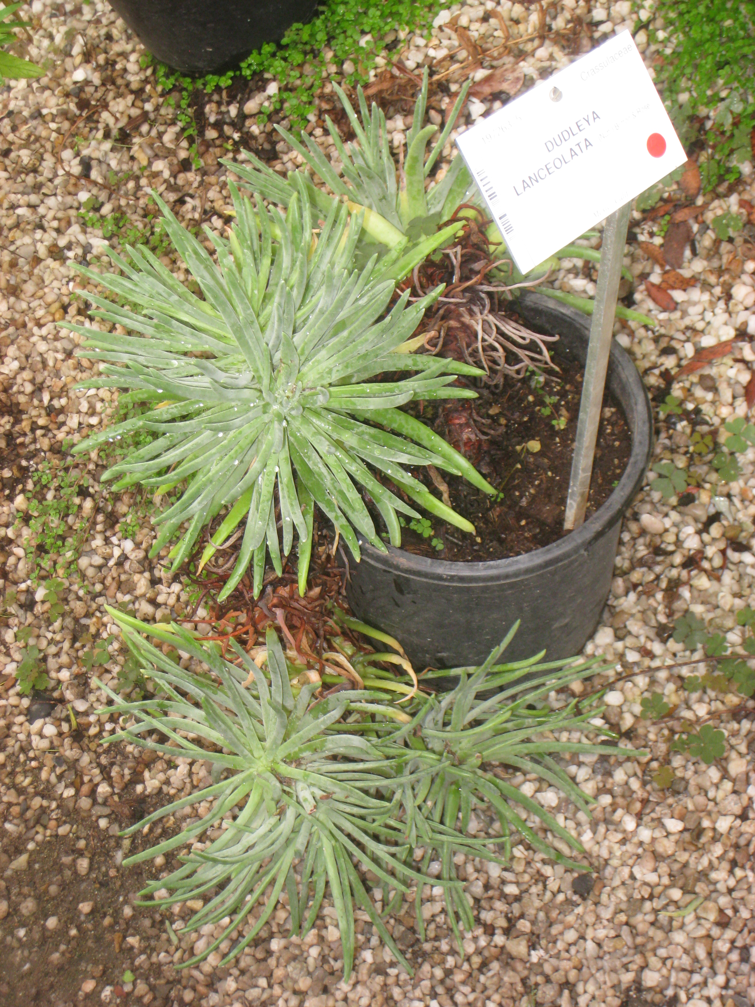 Dudleya lanceolata specimen in the National Botanic Garden of Belgium, Meise, just north of Brussels, Belgium.